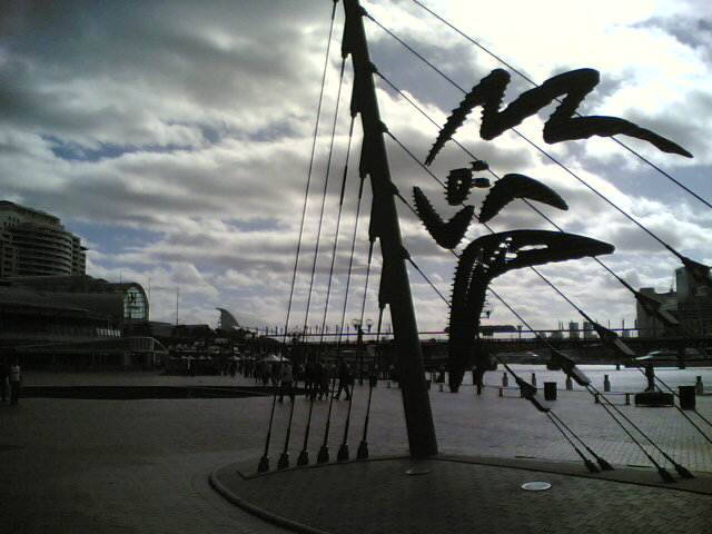 Darling Harbour in Sydney/Australia: Olympic Symbol